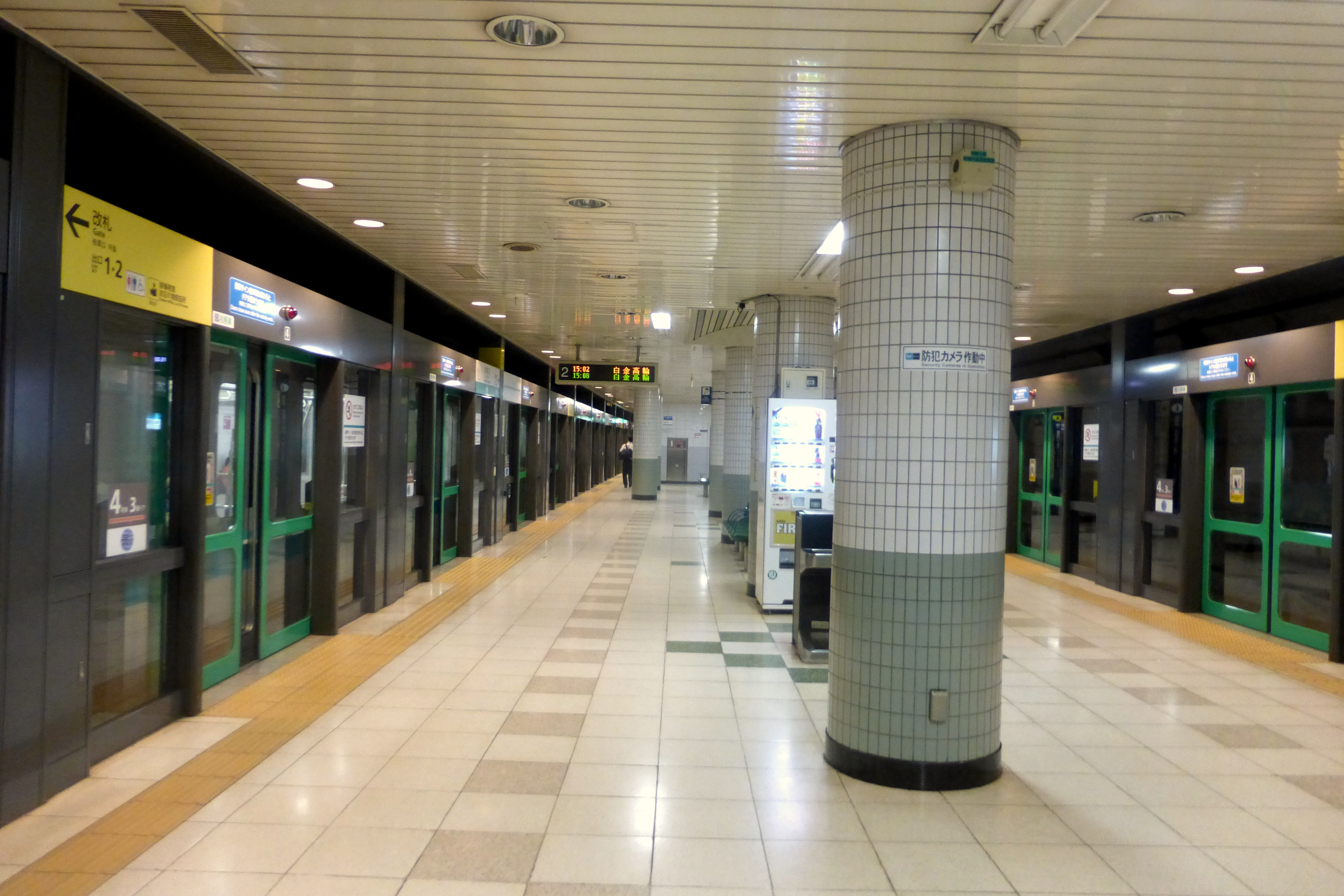 The platforms at Hon-Komagome Station, viewed from the outside